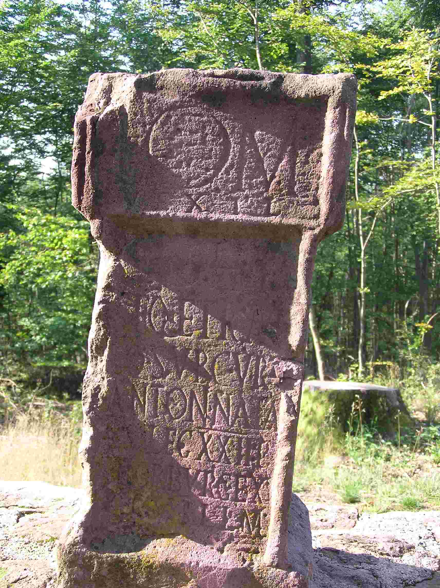 Description: Jupiter memorial Watch tower 10/37 / Germany Author: Schwing, picture taken 06.09.2005